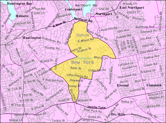 U.S. Census 2000 reference map for Greenlawn